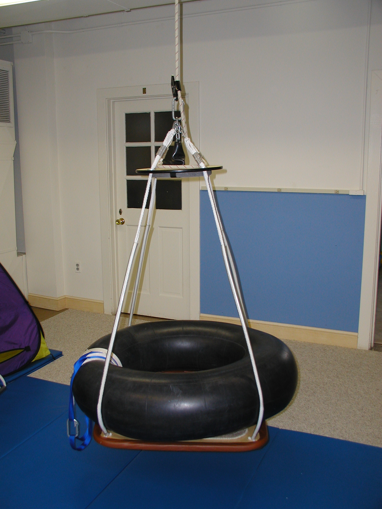 An indoor tire swing. Taken at Occupational Therapy 4 Kids. - OpenStreetMap(Info)